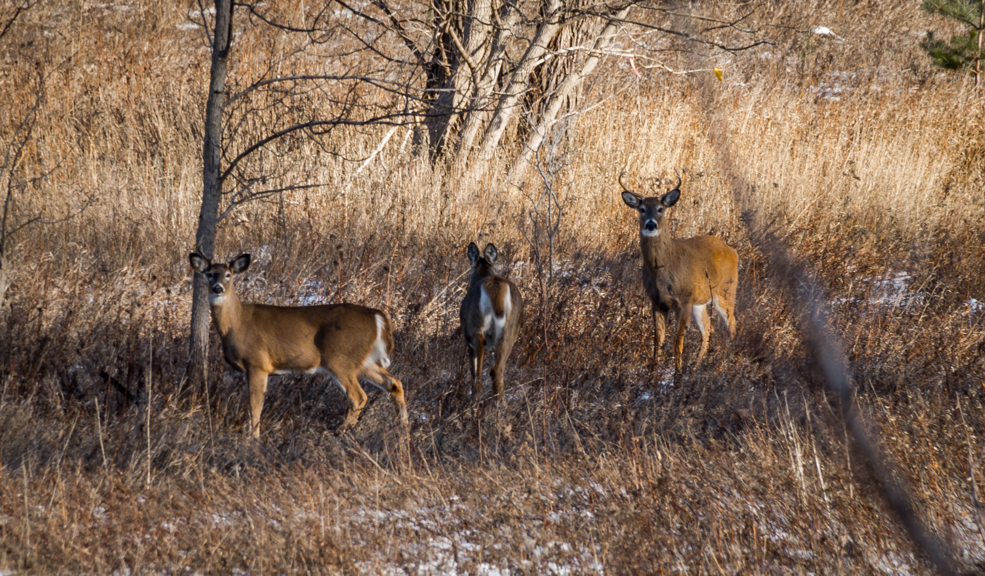 Deer strolling through rouge park